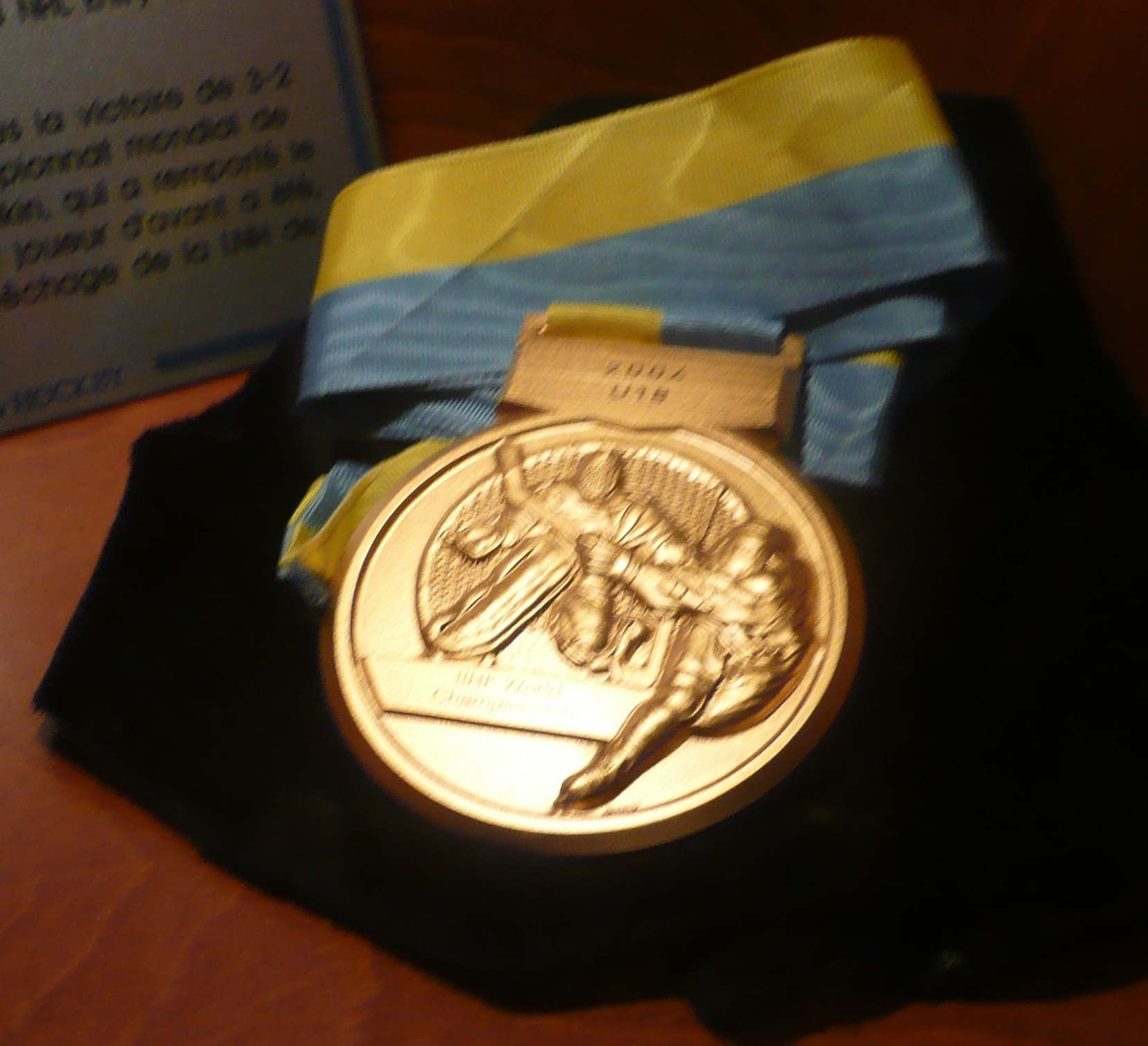 The gold medal awarded to Evgeni Malkin at the 2004 IIHF World U18 Championships.